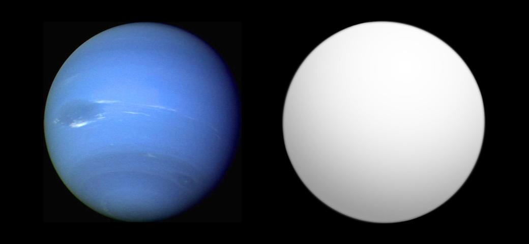 Comparison of best-fit size of the exoplanet Gliese 436 b with the Solar System planet Neptune, as reported in the Extrasolar Planets Encyclopaedia[1] as of 2010-10-03. ↑ Extrasolar Planets Encyclopaedia (2010-09-30). Retrieved on 2010-10-03.